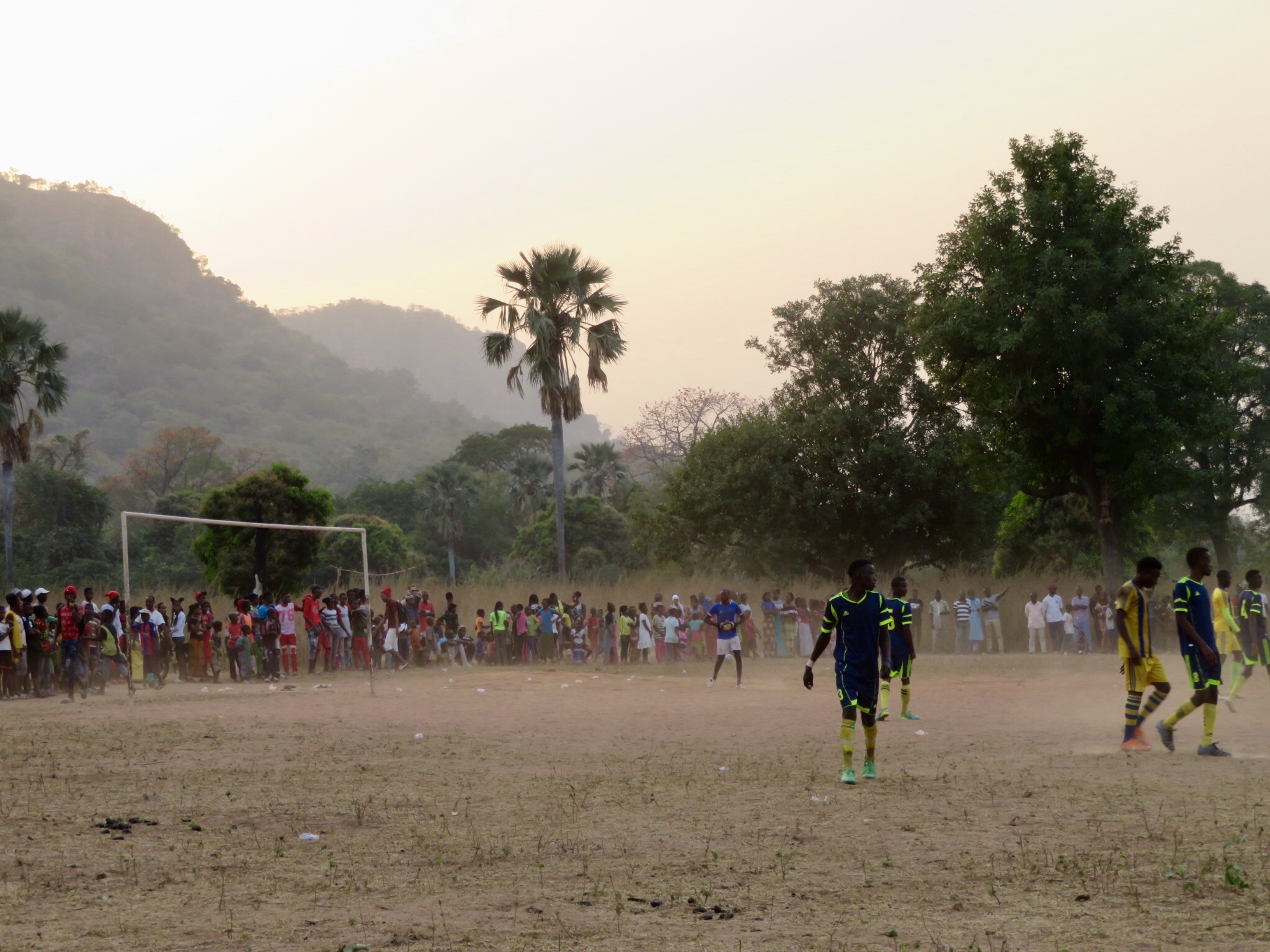 This photo was taken in the village of Dindefelo, a town in the region Kedougou, which is part of Senegal, West Africa. The photo was taken on December 31st of 2018 and captures the championship match between the teams of Dindefelo and Dande, another neighboring village in the Kedougou region of Senegal. This is an image with the theme "Play" from: Senegal